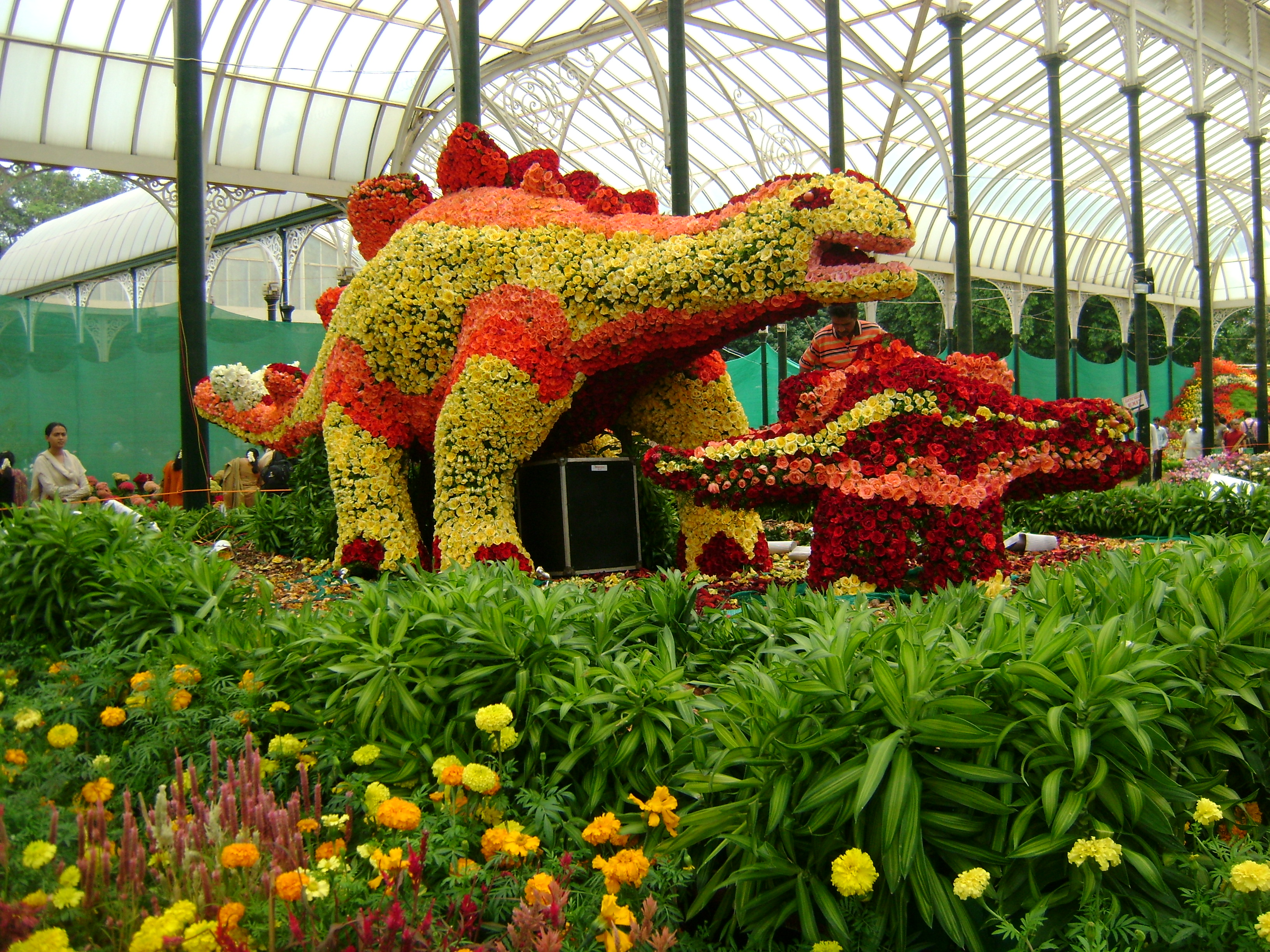 No life, but worth of viewing.